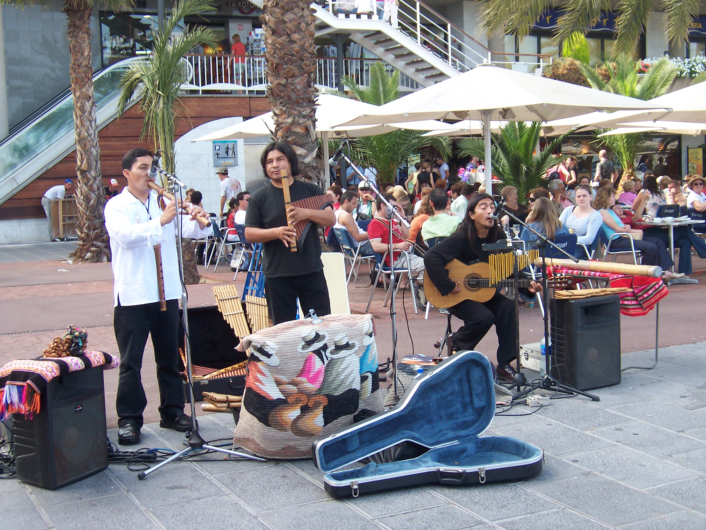 Musicians in the street, on Olympic Village Avenue, in Barcelona.